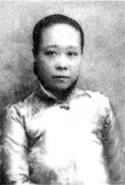 Fu Xuanyi, who's husband was Lin Busui